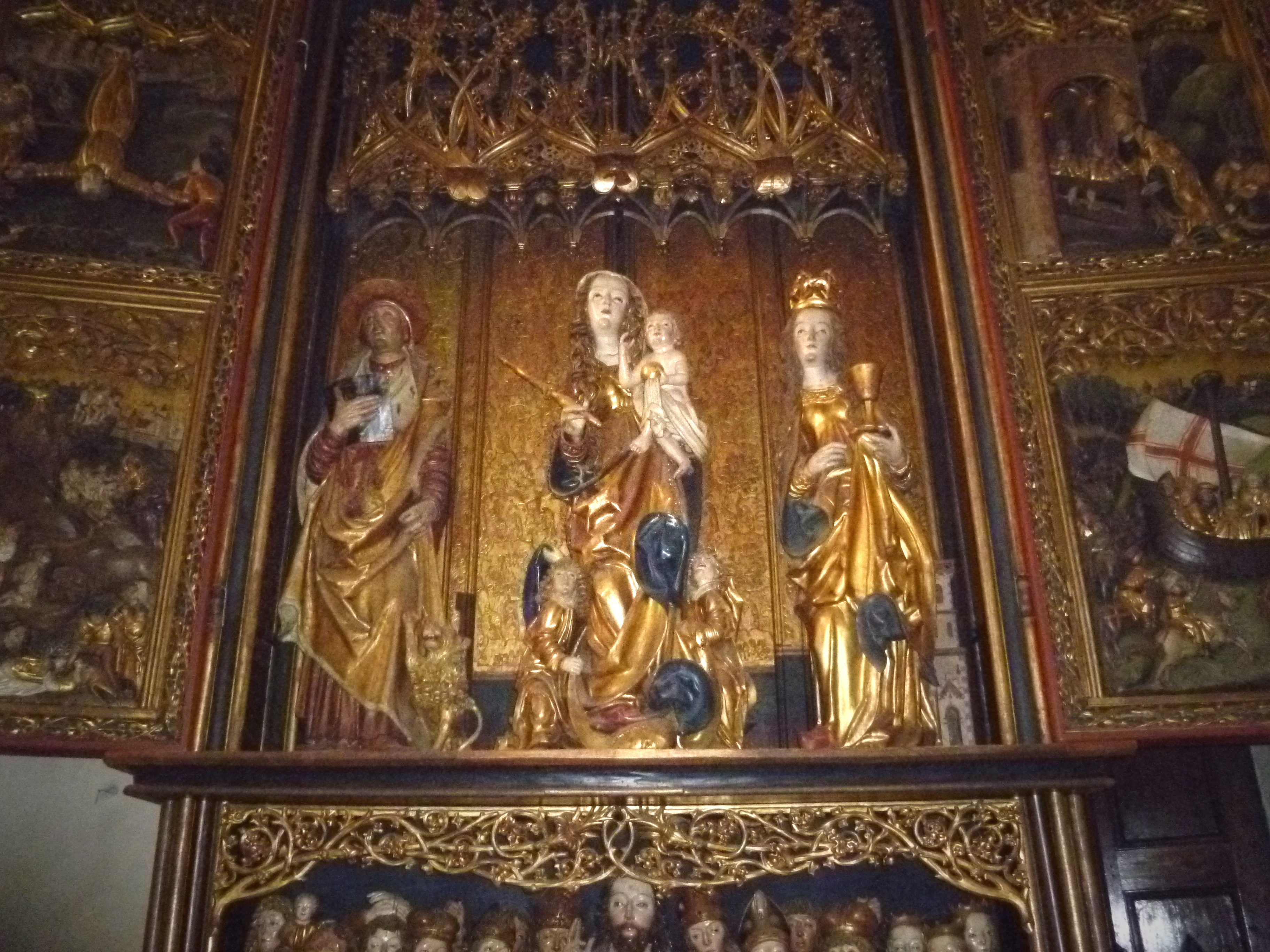 "Altar of St. Barbara", retable by Master Paul of Levoča in the Church of the Assumption in Banská Bystrica (Slovakia).